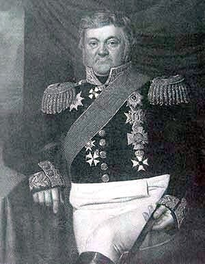 Admiral Lodewijk Sigismund Gustaaf, graaf Van Heiden Reinestein (6 september 1773 - 7 oktober 1850) Russian Admiral